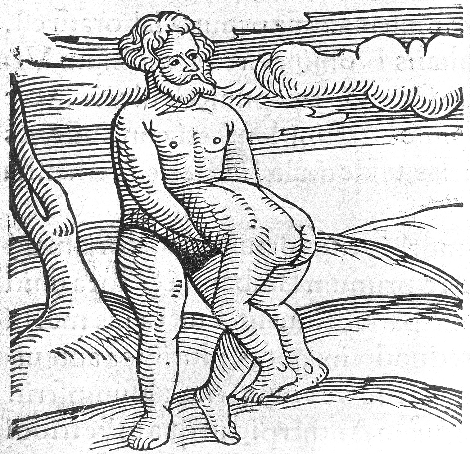 Bearded man with man coming from his belly. Rare Books Keywords: ABNORMALITIES; freak